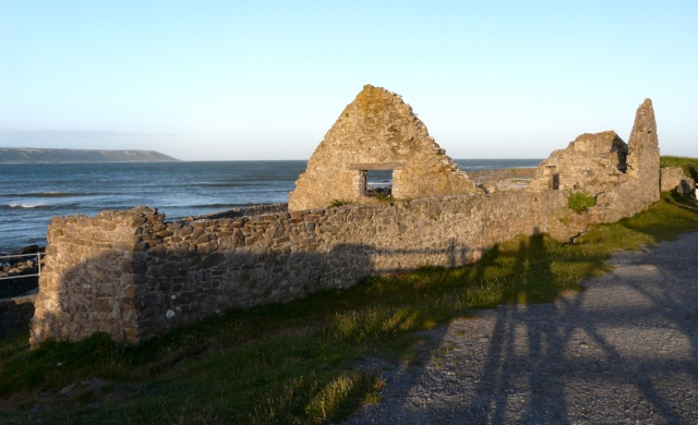 Port Eynon - The Salt House The ruins of a complex of buildings where seawater was boiled to extract the salt for preserving the fish that was once caught locally. The location was chosen because the bay was shallow which caused the seawater to evaporate somewhat thus increasing the concentration of the salt. Furthermore there were no rivers emptying into the bay to dilute the seawater either.